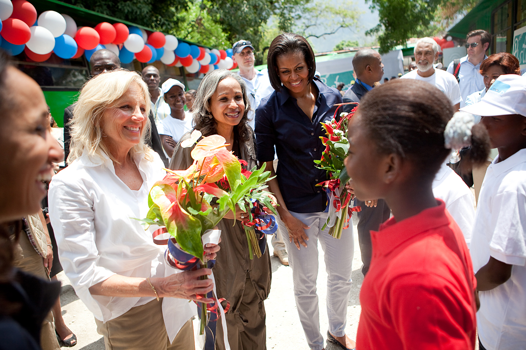 First Lady Michelle Obama, Haitian First Lady Elisabeth Delatour Preval, and Dr. Jill Biden, receive flowers from children at "The Children's Place" in Port-au-Prince, Haiti, April 13, 2010. The Children's Place, which was created by Elisabeth Delatour Preval, has Haitian artists work with children on art projects as part of a post-quake therapy program. (Official White House Photo by Lawrence Jackson)